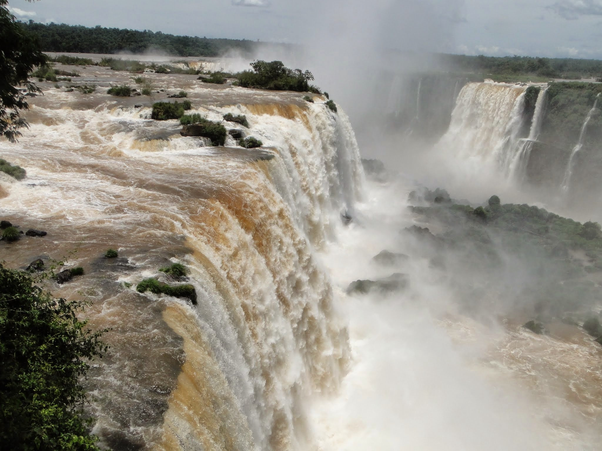 Iguazu falls